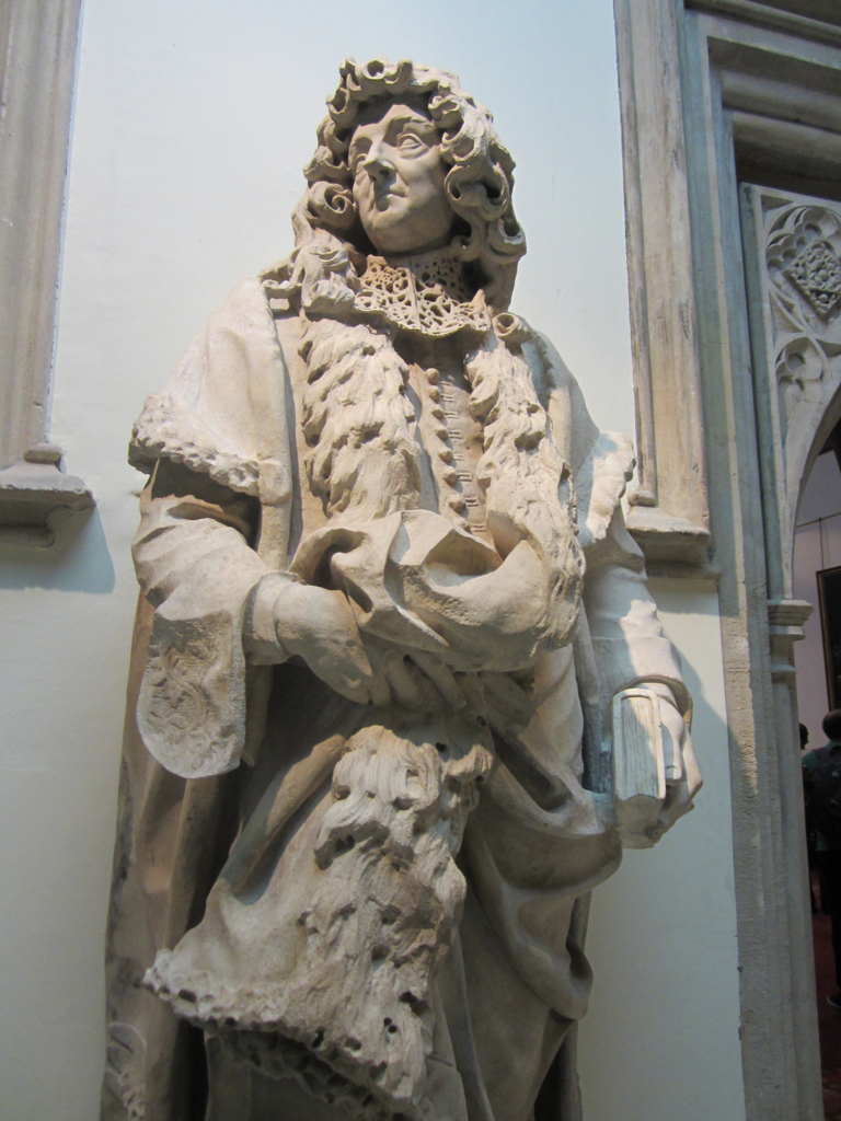 Sir John Cutler, Baronet (1607-1693) merchant and financier statue c. 1683 by Arnold Quellin commissioned by the Royal College of Physicians and originally placed above their entrance